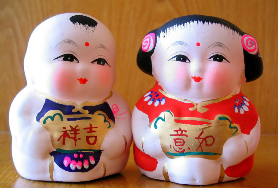 Huishan Clay Toy, famous local product in Wuxi, China